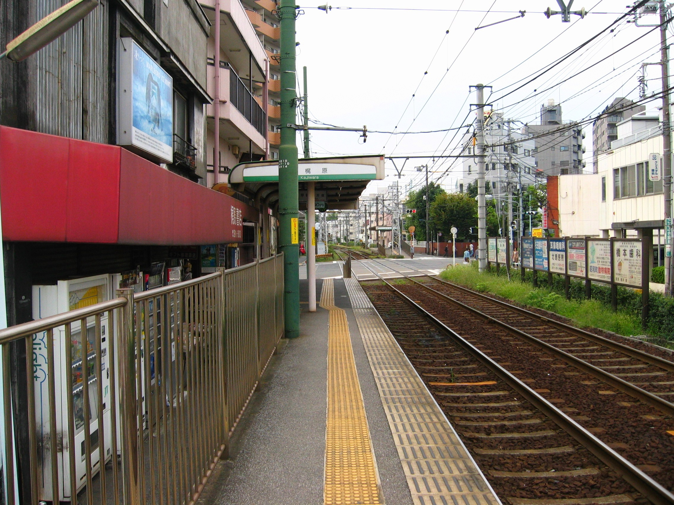 Toden Arakawa Line,Kajiwara Station. (Tokyo, Japan)